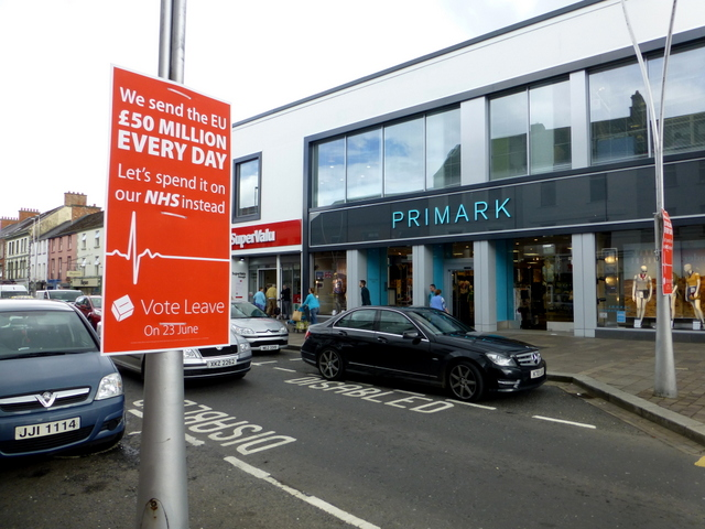 "Vote Leave" poster, Market Street, Omagh. "We send the EU £50 million every day. Let's spend it on our NHS instead. Vote Leave. On 23 June."